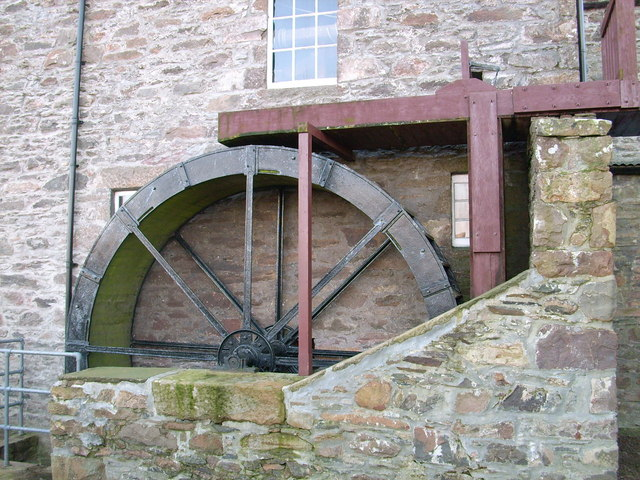 Quendale Mill "Come awa in, we'll be blyde ta see you" - the mill is a three=star visitor attraction, open mid-April to October. It was built in the 1860s and is a fully-refurbished overshot mill. Further info here